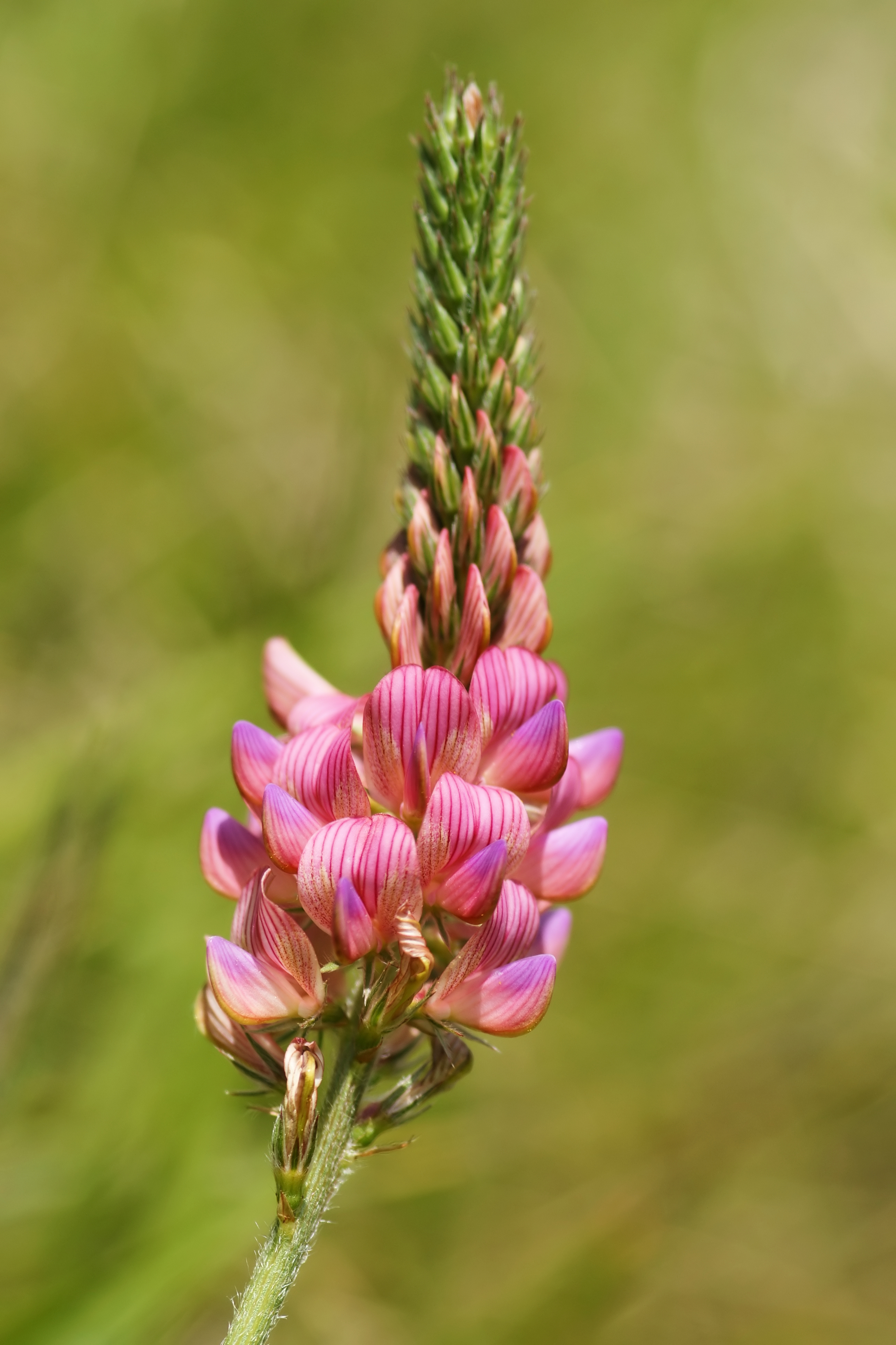 Esparcet at Riez de Boffles, France.